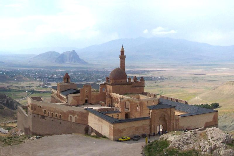 The İshak Paşa Sarayı was begun in in 1685 by Çolak Abdi Paşa and completed in 1784 by his son, a Kurdish chieftain named İshak. It's 6 km uphill from the city of Doğubeyazıt in Far-Eastern Turkey, 30 km from the Iranian border. Exact location on Google maps